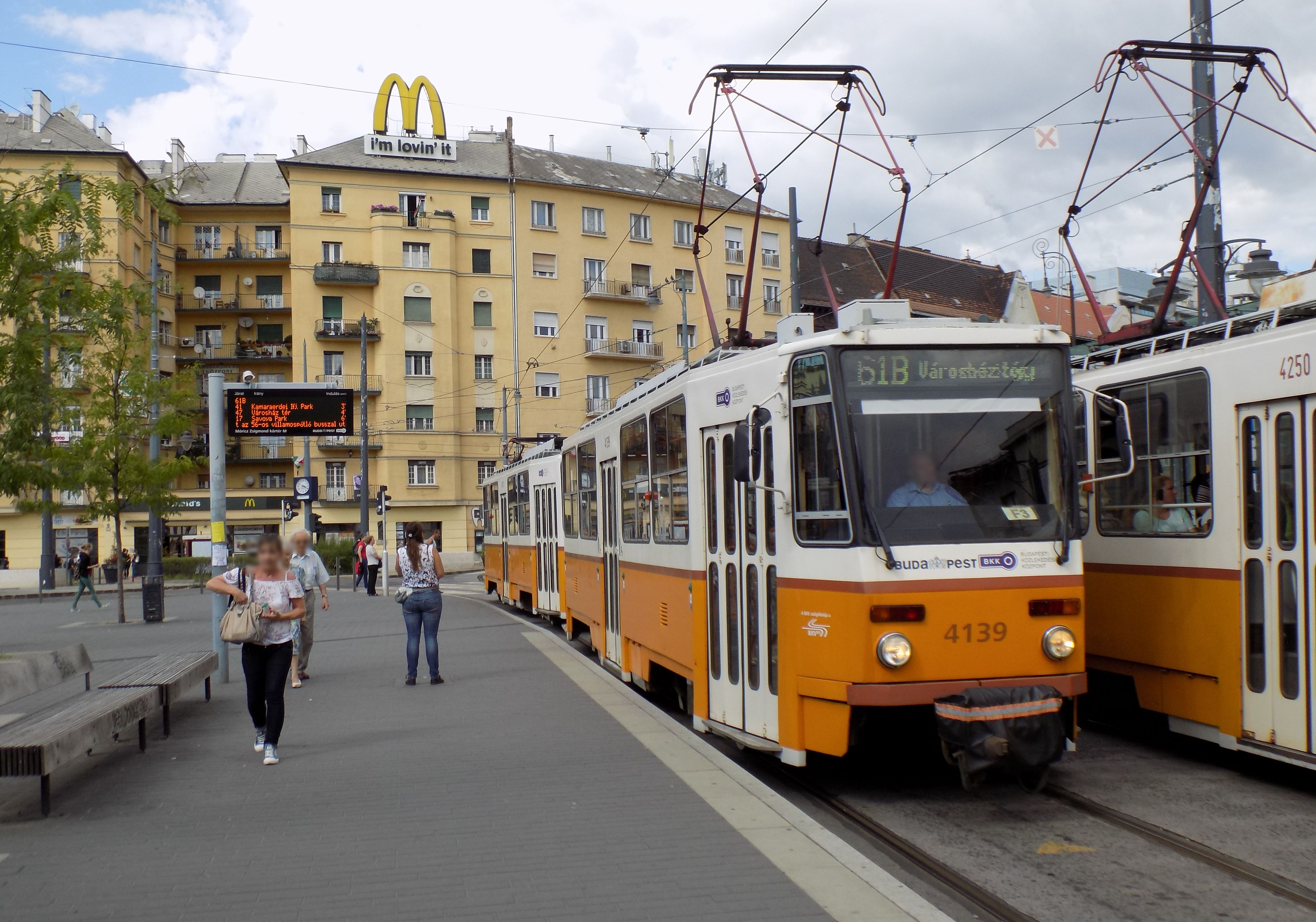 Tatra T5C5K tram (reg. 4139&4337) on line 61B (Budapest)